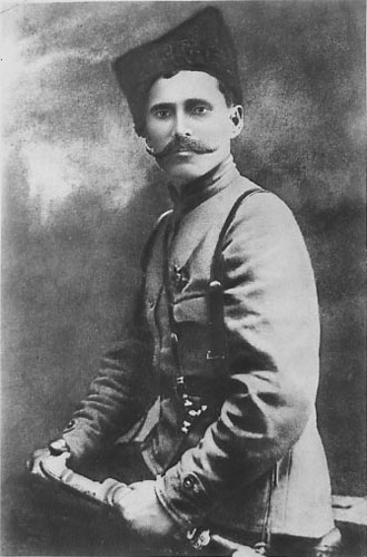 Vasily Chapayev, russian soldier and military commander during the Russian Civil War